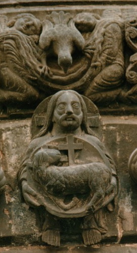 Depiction of the Trinity on the portal of the Basilica of St.-Denis, France (version losslessly cropped to remove inessential or distracting details for Trinity article). Shows the dove of the Holy Spirit above God the Father holding an Agnus Dei (symbol of Christ).